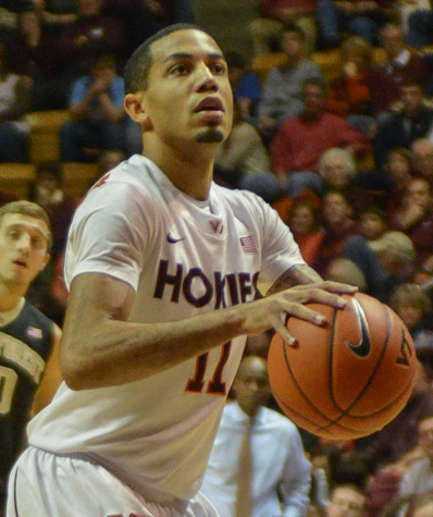 Erick Green playing for Virginia Tech Hokies.